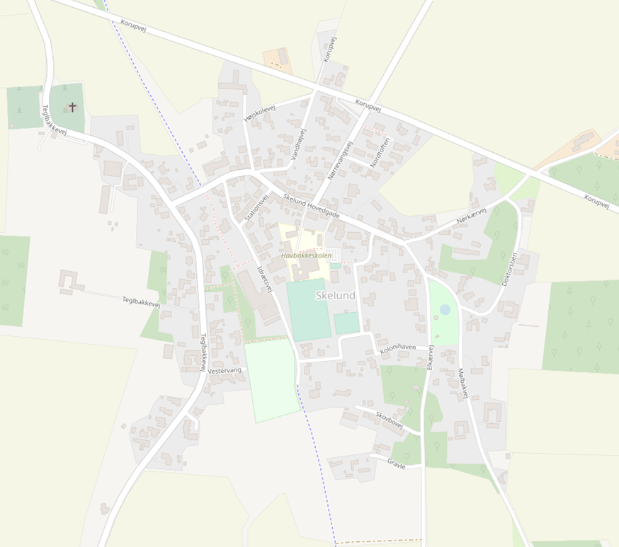 Map of city Skelund This map may be incomplete, and may contain errors. Don't rely solely on it for navigation.